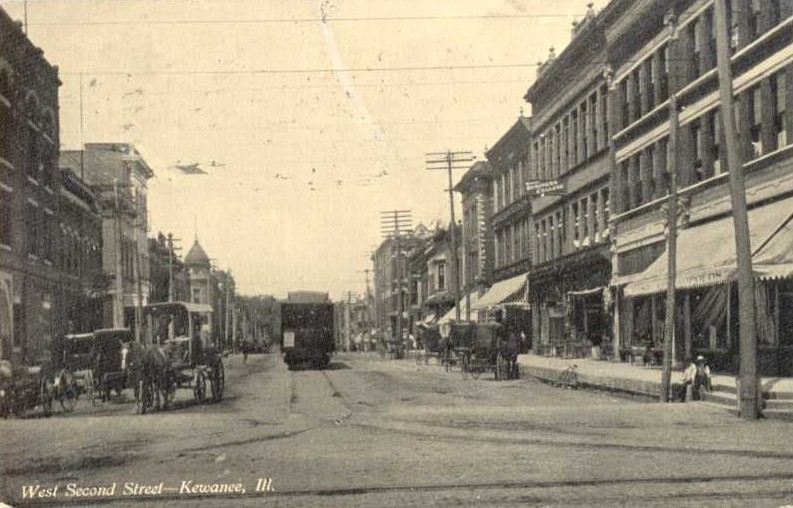 Postcard picture of West Second Street, Kewanee, Illinois